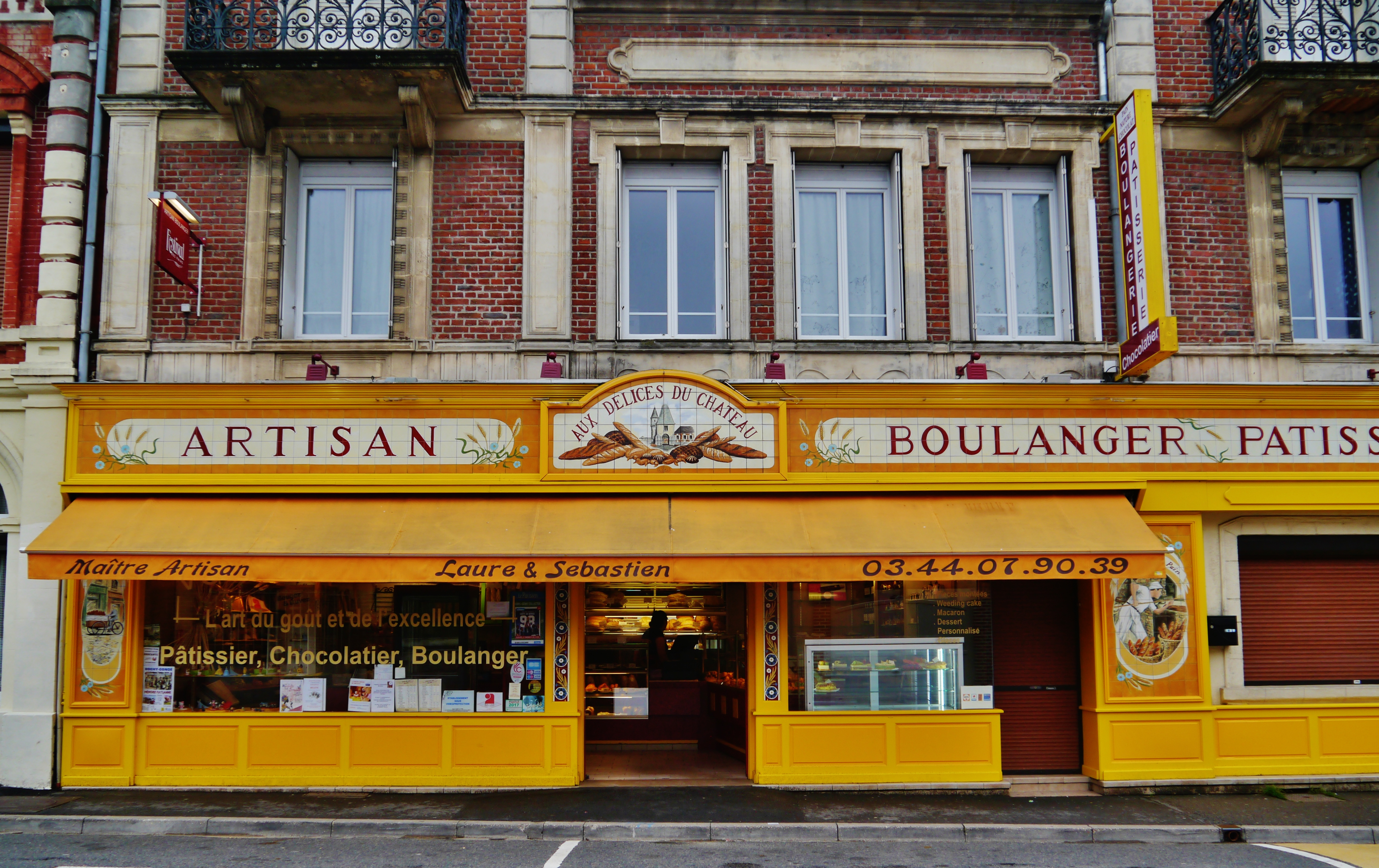 Bakery in Bresle, Department of Oise, Region of Upper France (former Picardy), France